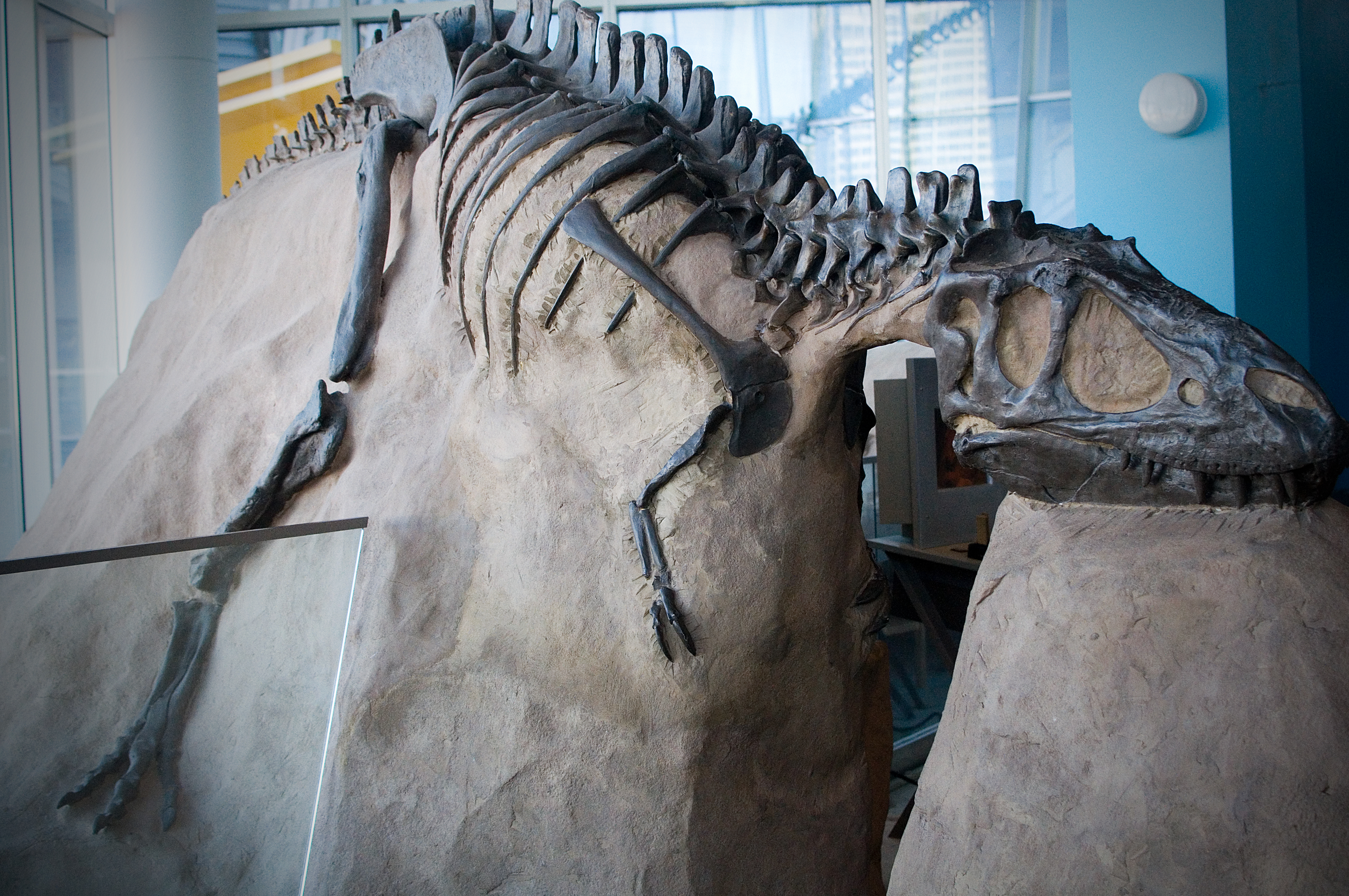 Gorgosaurus (formerly Albertosaurus) libratus (specimen ROM 1247) skeleton at Maryland Science Center, mounted by Hall Train Studios